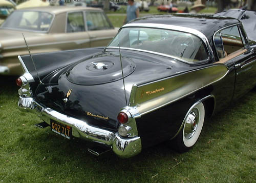 1958 Packard Hawk (Model 58L-K9) at a Studebaker show in Anaheim, California on May 25, 2003.